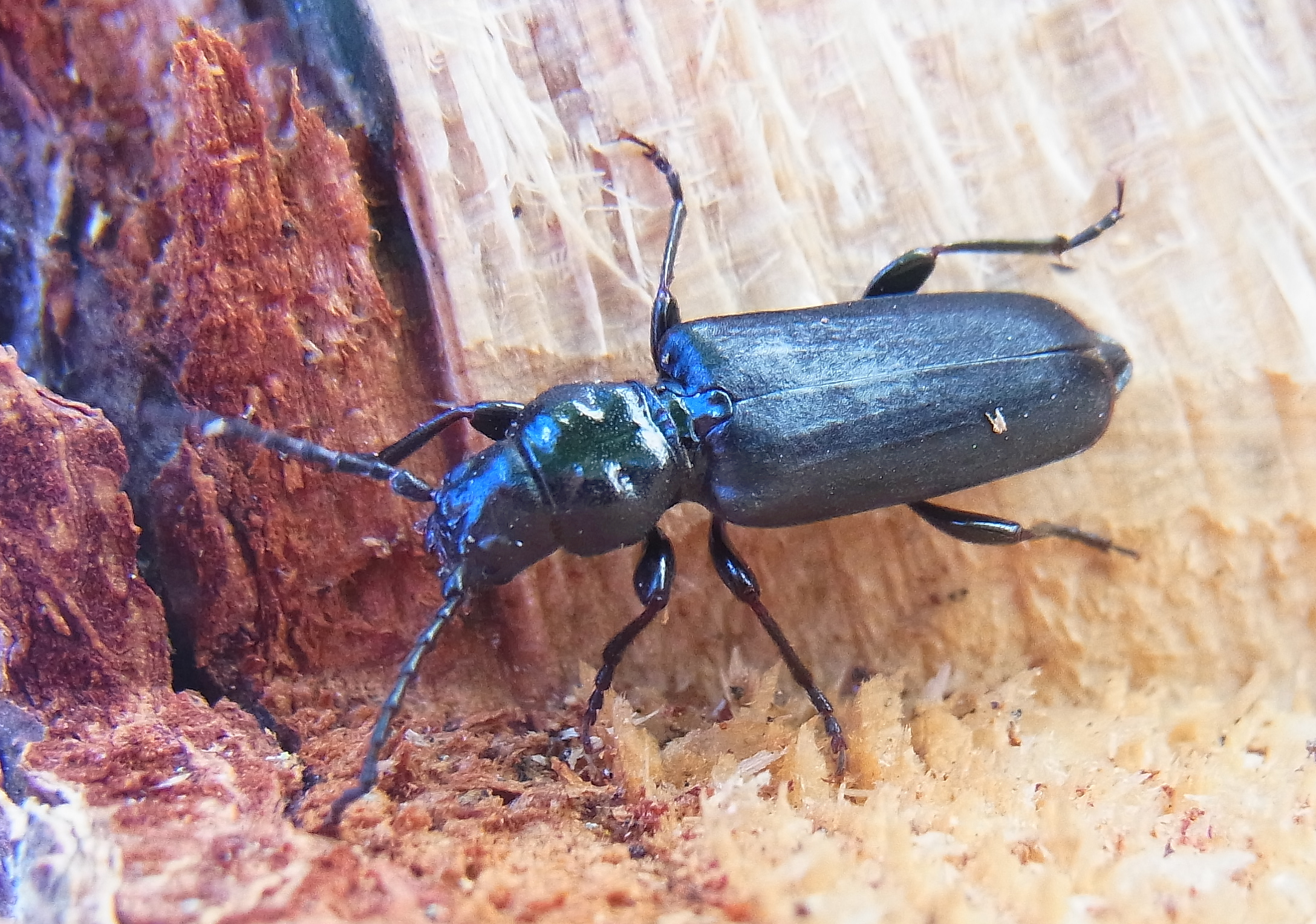 Tetropium castaneum from Austria, Gerlospass at 2012-07-18